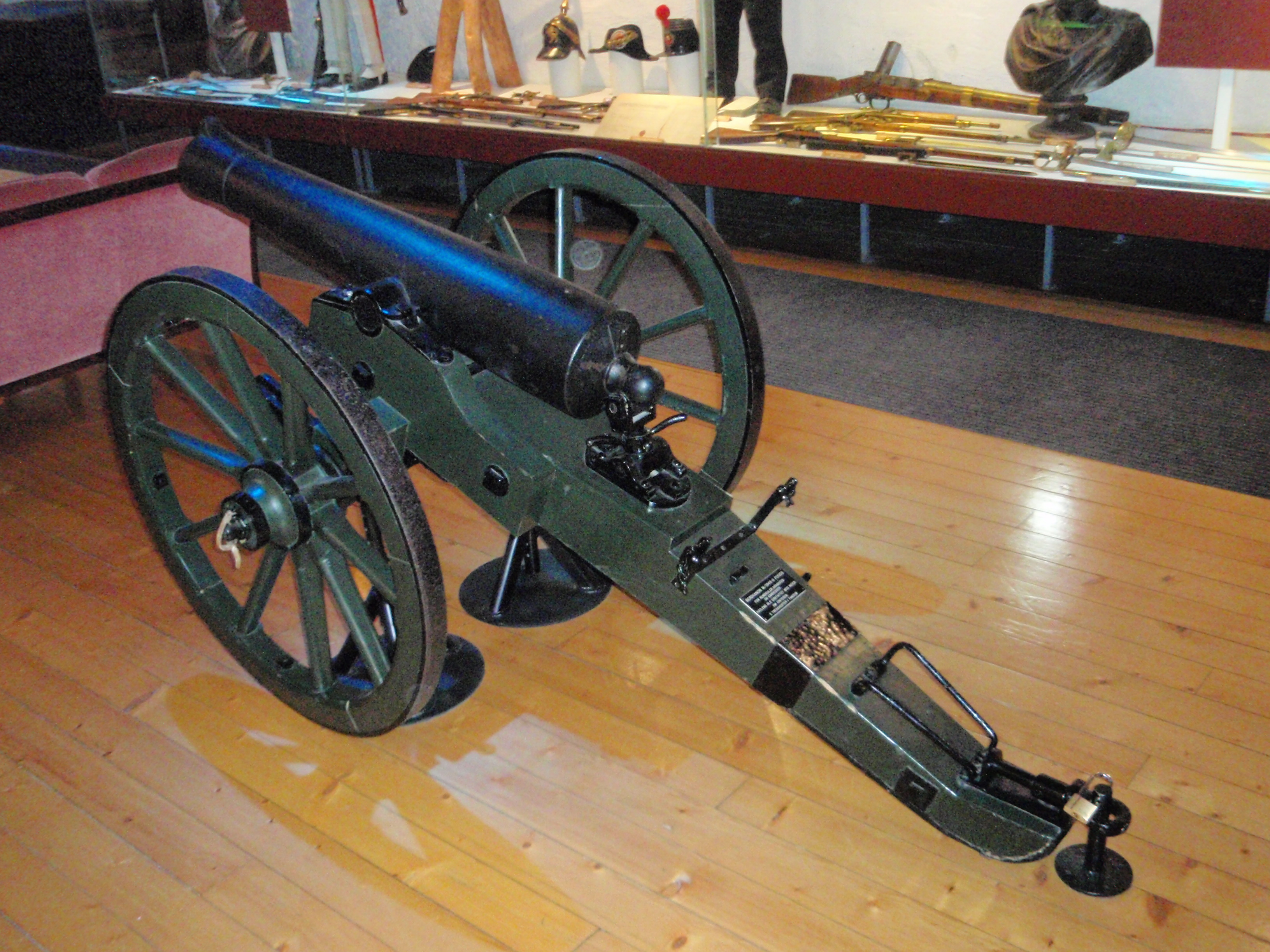 A Norwegian 6 pounder Bergkanon M/1848 mountain gun on display at the armoury museum in the Archbishop's Palace in Trondheim, Norway.